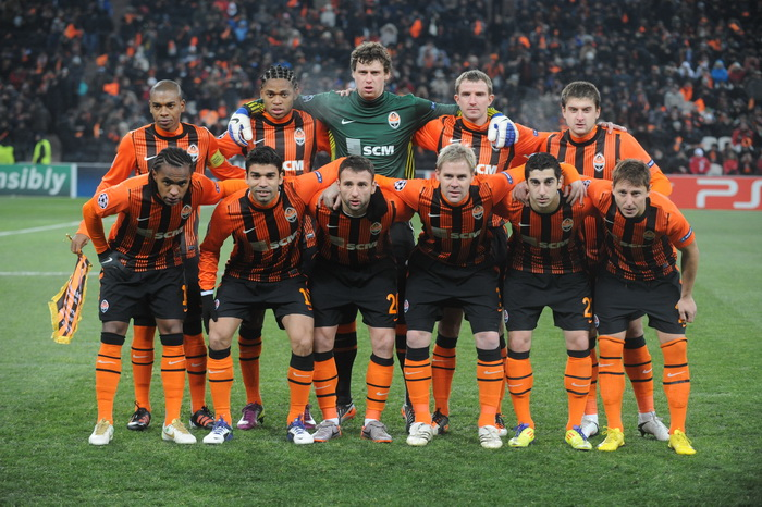 football of champions league shkaktar Vs. Porto